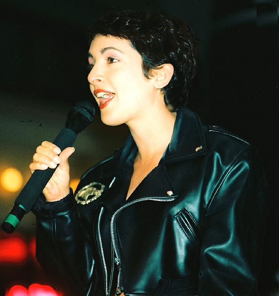 Jane Wiedlin taken at the Bourse in Philadelphia Part of a live radio station broadcast that also included performances by Brenda K. Starr and Jade Starling